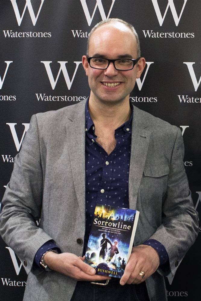 Niel Bushnell at a book signing event in Newcastle upon Tyne, January 2013